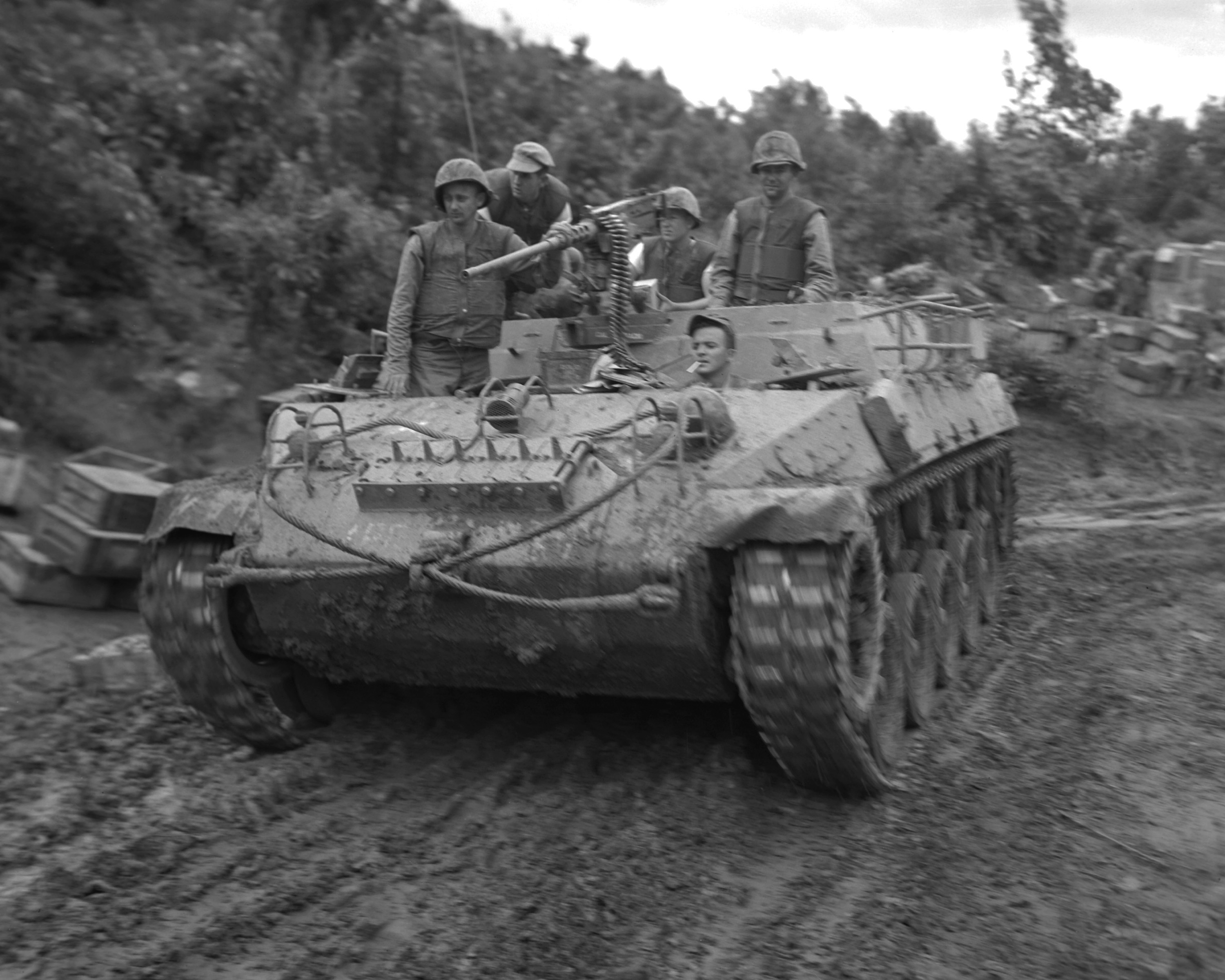 FIGHTING IN BERLIN SECTOR - An APC moves up to 3rd Battalion, 1st Marines to pick up casualties during an attack against Boulder City in Korea. NARA FILE #: 127-GK-234D-A173808